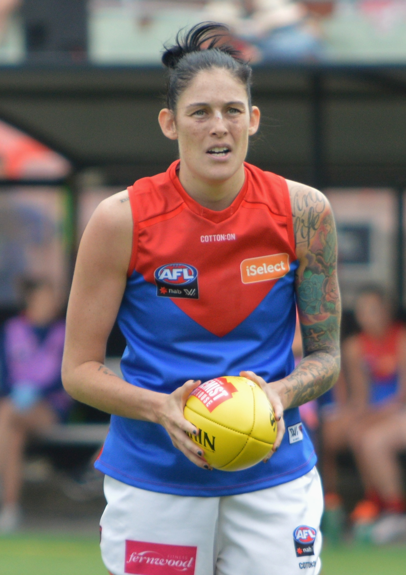 Tegan Cunningham during the round 6, 2018 AFL Women's match between Carlton and Melbourne.